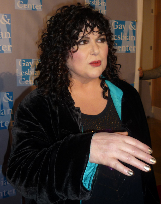 Ann Wilson in May 2010.